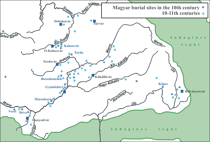 This map has been uploaded by Electionworld from to enable the Wikimedia Atlas of the World . Original uploader to was Fz22, known as Fz22 at . Electionworld is not the creator of this map. Licensing information is below.